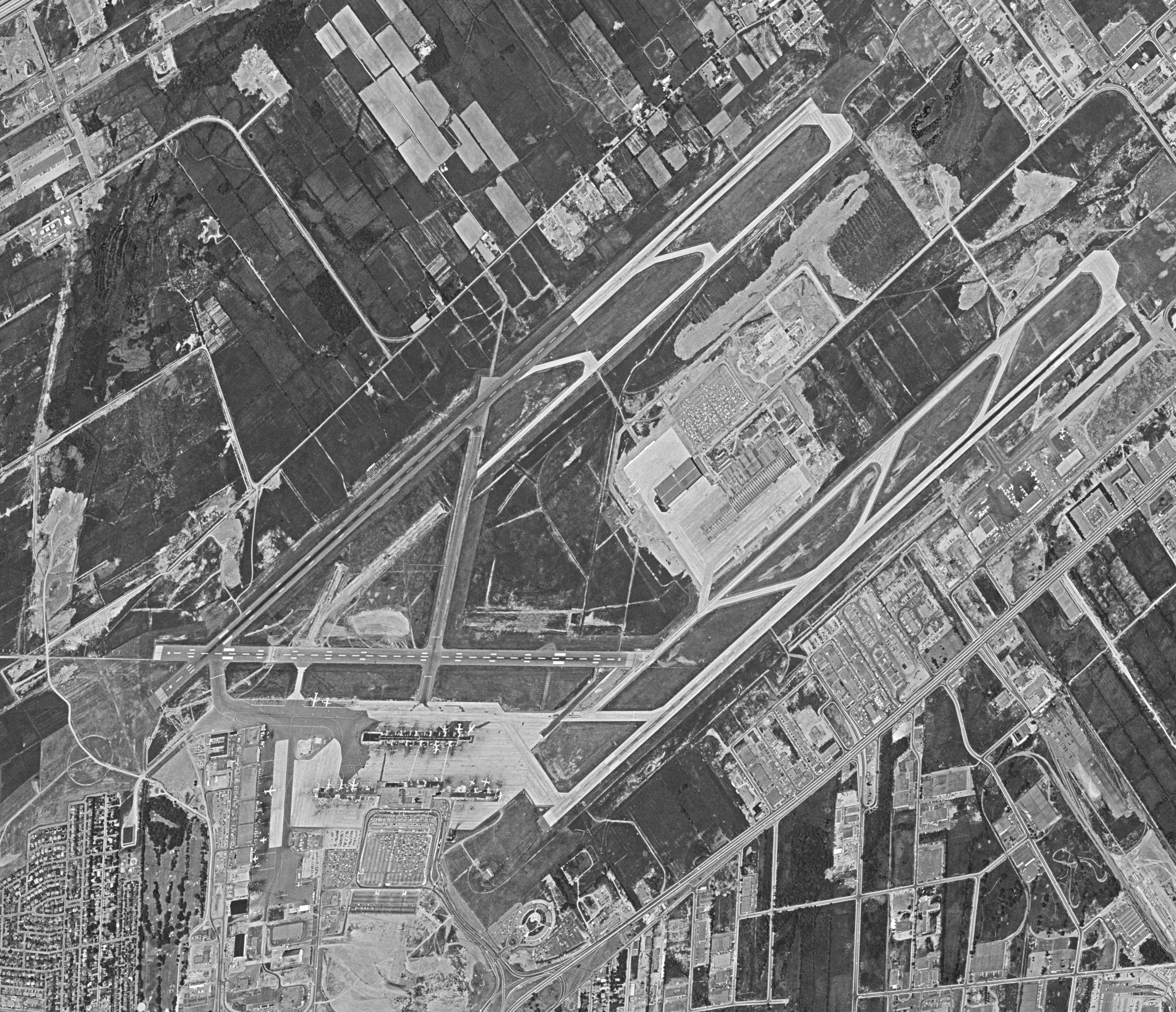 Dorval Airport in Montreal, Canada, as photographed by a KH-9/HEXAGON satellite during mission 1201.